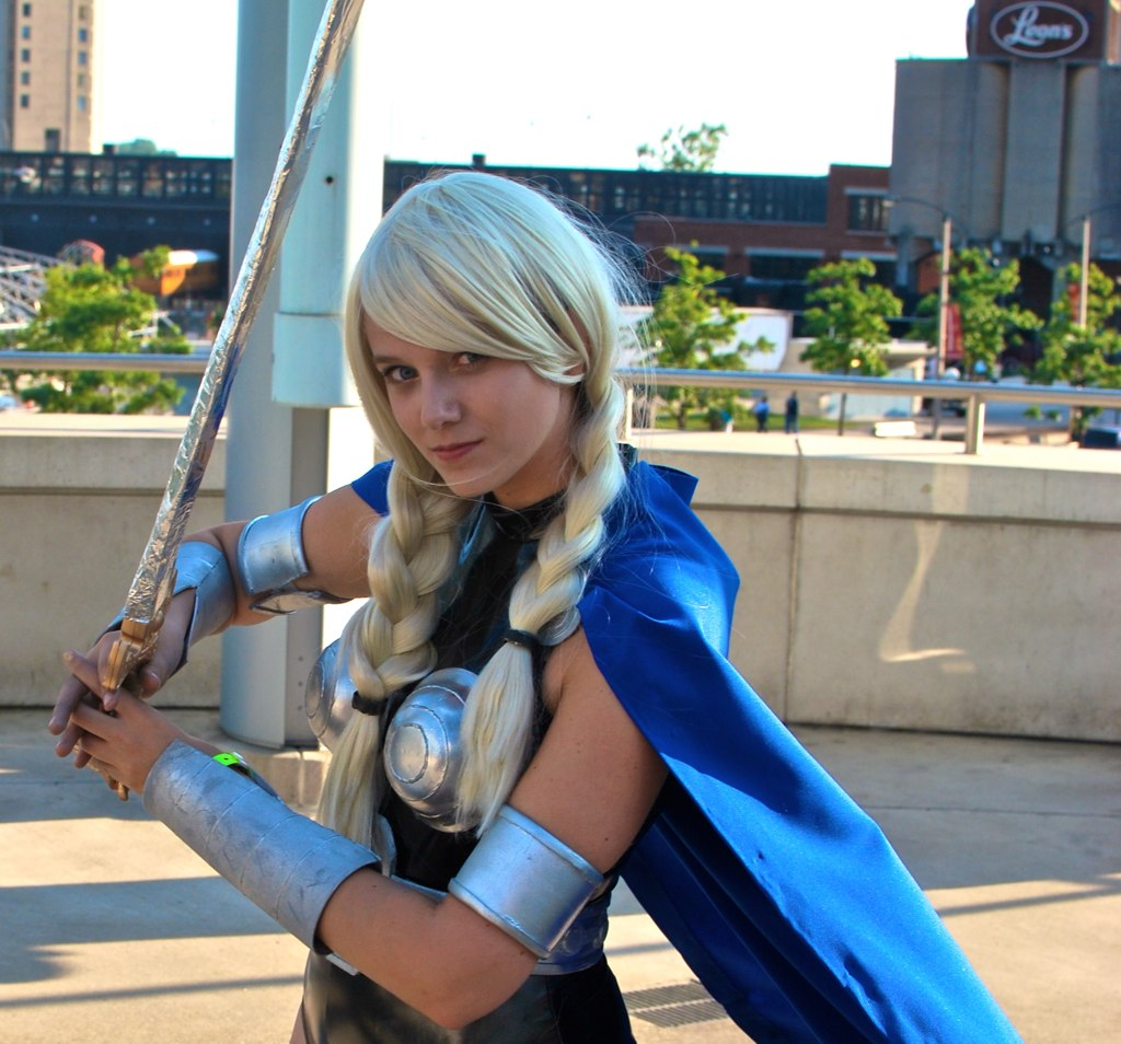 Valkyrie cosplay for Fan Ex 2011 Camera: Nikon D60 License on Flickr (2011-08-26): CC-BY-2.0 Flickr tags: nikon, Fanexpo, FanEx, 2011, Valkyrie, Marvel, superhero